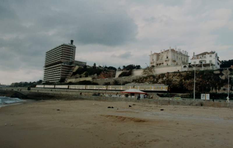 Lisbon commuter train at Estoril (1994).